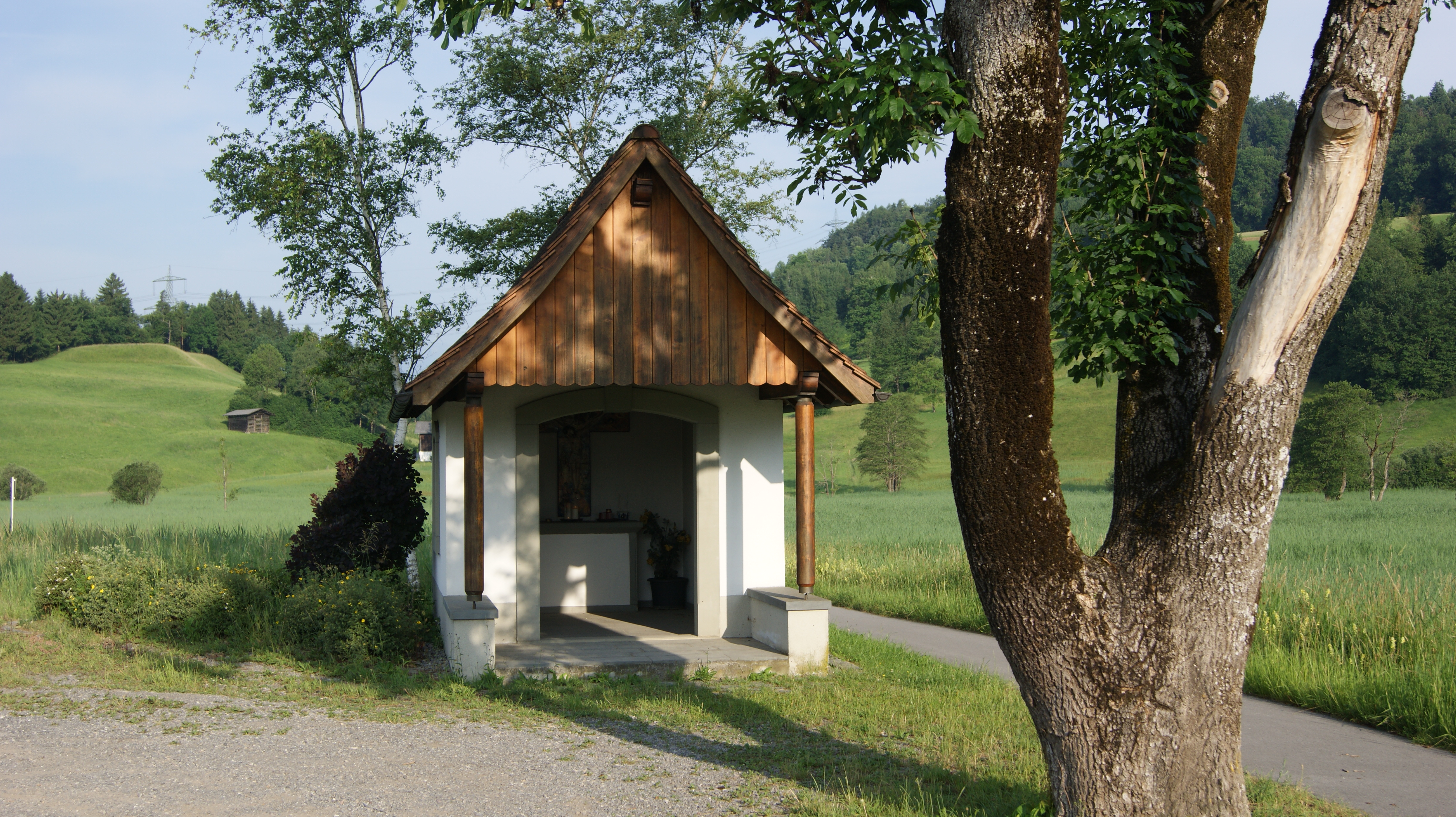 Chapel in the plot Hauptmannsbild in the municipality Satteins in Vorarlberg, Austria. The Chapel is located at the L54 (Walgaustraße) at about 476 masl and it is about 4 meters high. The "Kristbühl" (hill) can be seen in the background. The altarpiece represents the crucifixion group and is a ceramic work by Reinhard Welte from the year 1993. It consists of 9 individual plates with background lasted colors. About 400 meters away from the Hauptmannsbild plot is the historically important "Mugastierbühel" (hill).